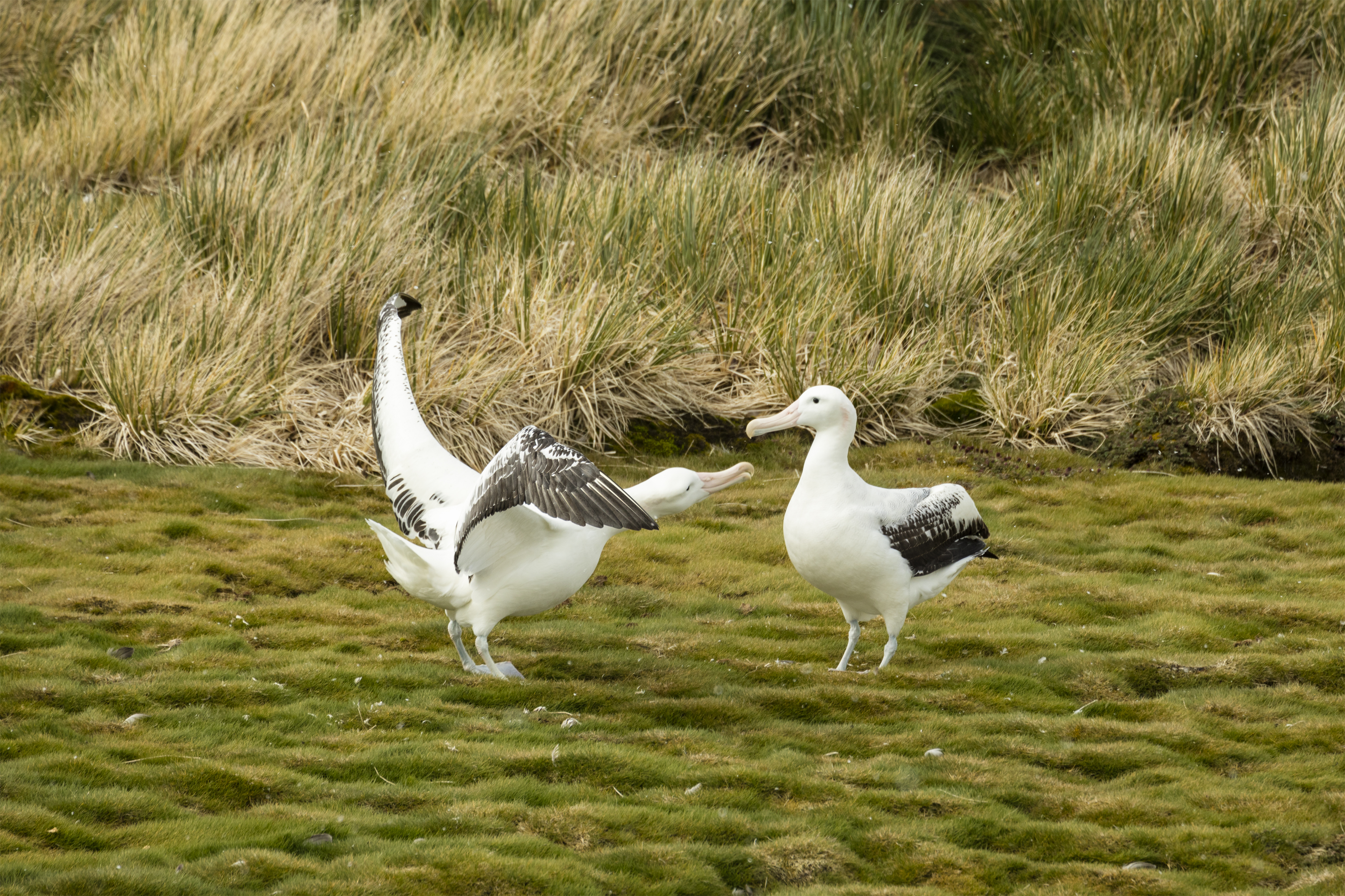 Wandering albatross, Prion Island, South Georgia.